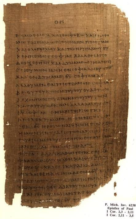 trimmed version of scientific photoreproduction of second century papyrus